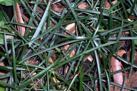 Atractocarpus chartaceus, juvenile